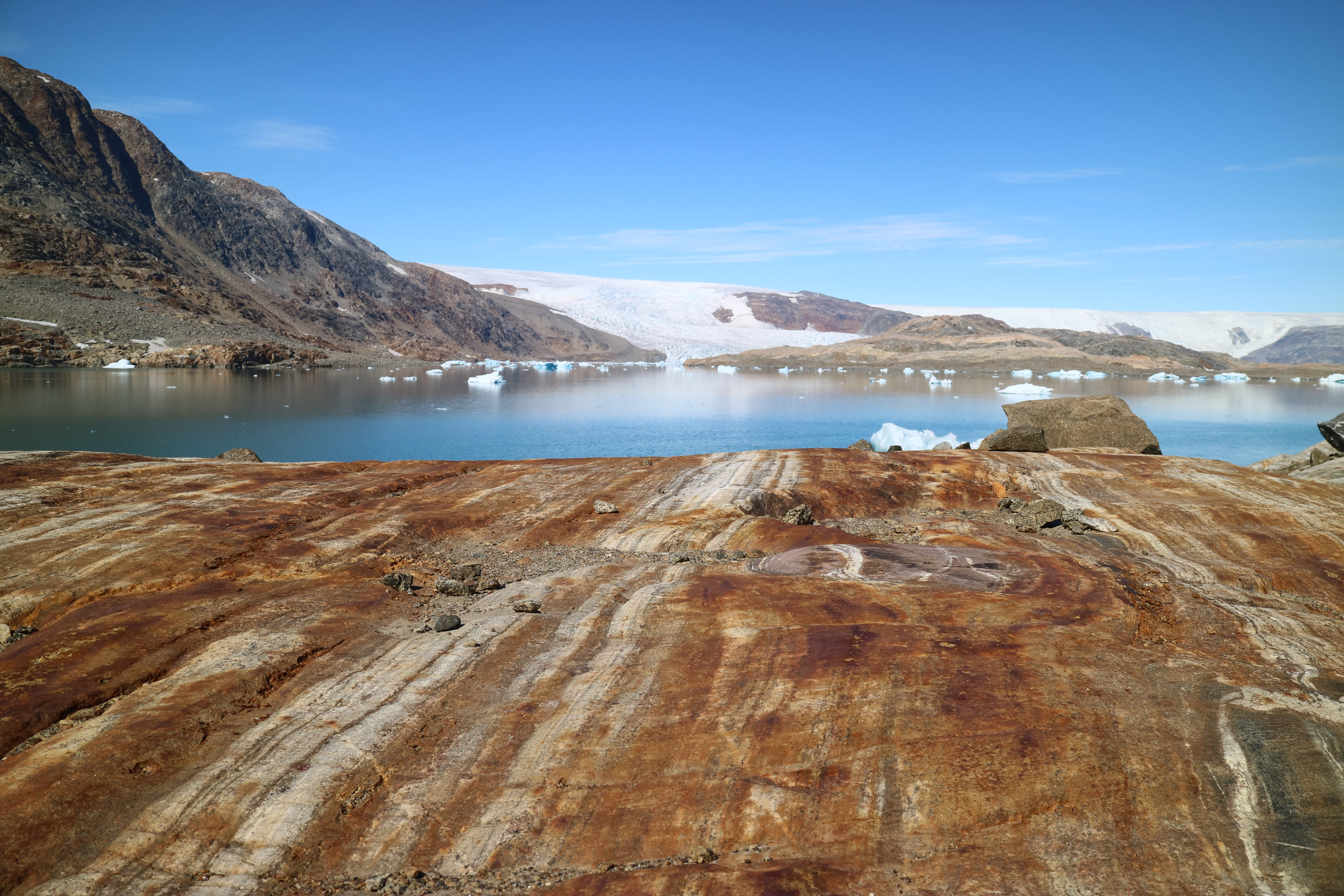 Glacial polish at Hann glacier in South East Greenland